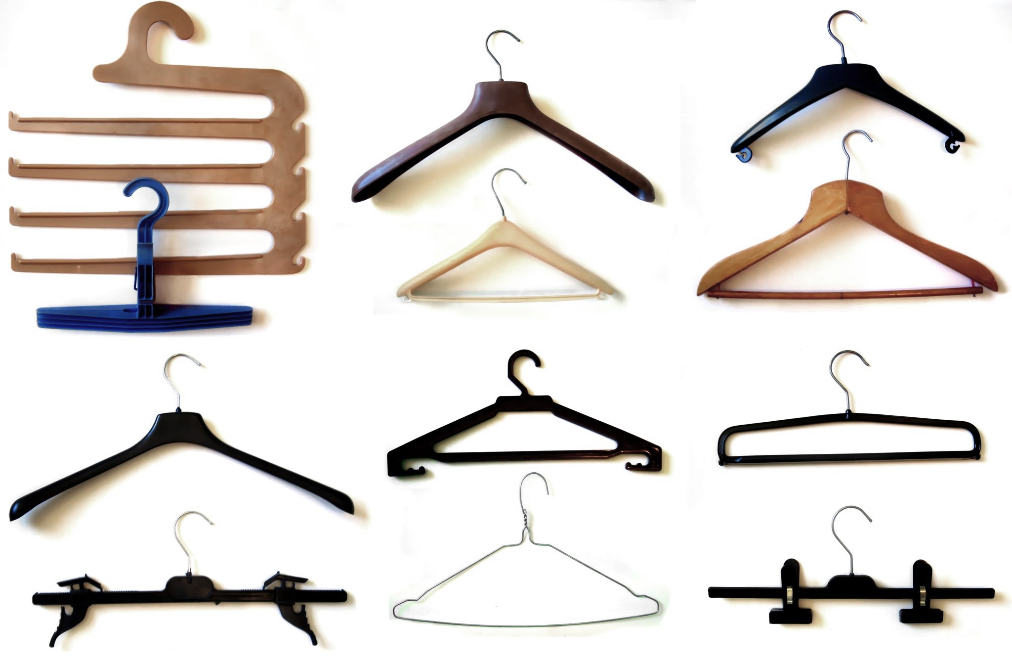 Hangers in different shapes and materials